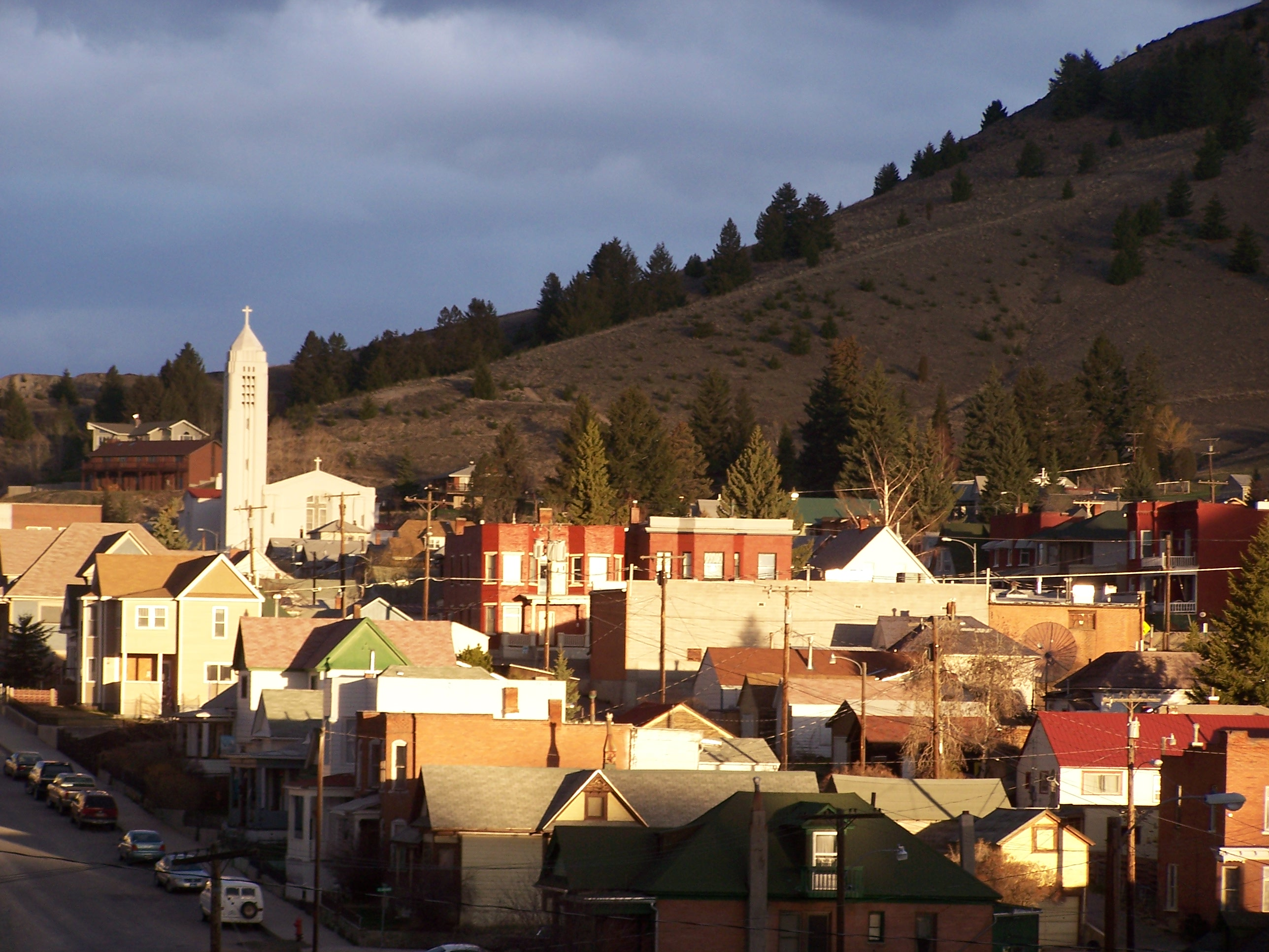 View of Butte, Montana. Photo by Richard I. Gibson, 2007